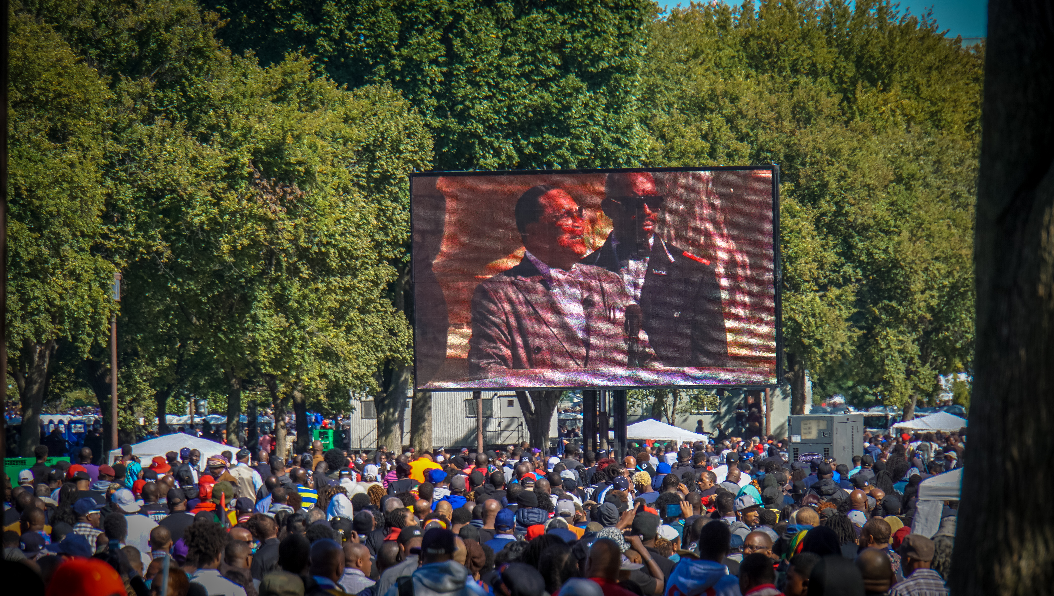 Million Man March Washington DC USA 09694